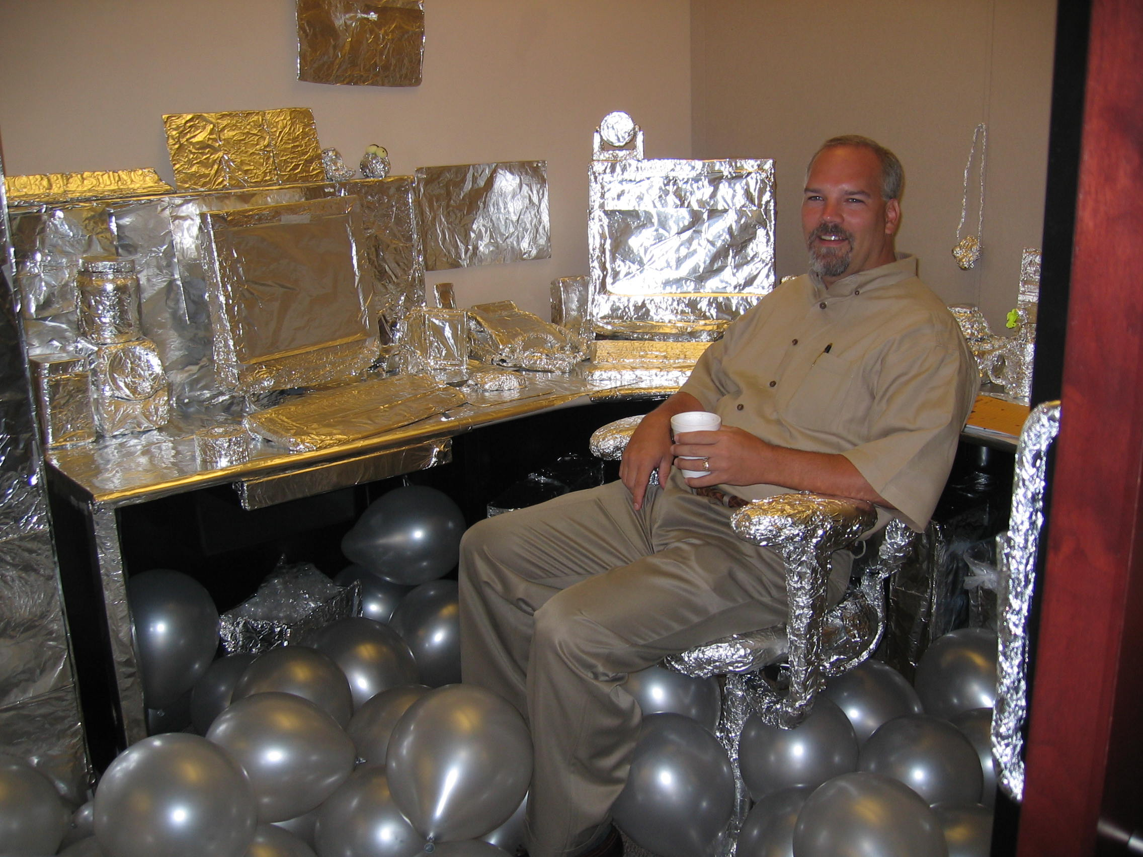 Foiled in office.